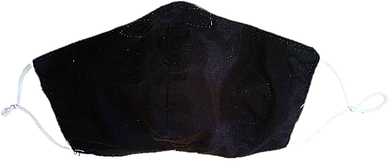 A black cotton facemask during the COVID-19 pandemic